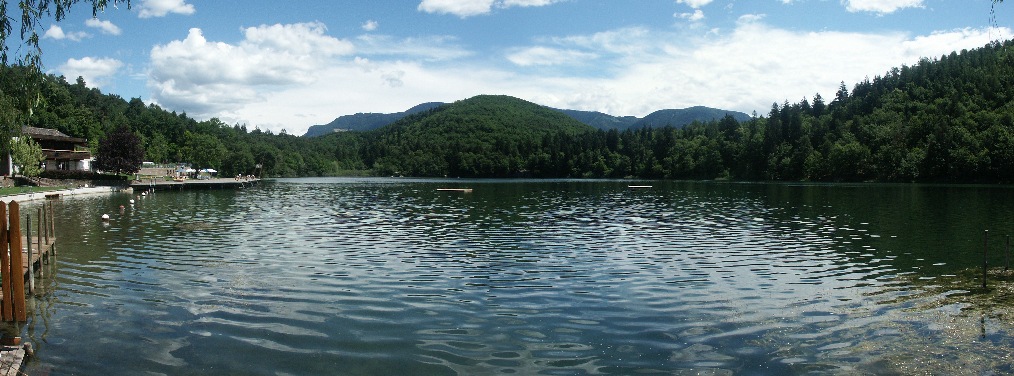 Lake of Montiggl (it: Monticolo), South Tyrol, Italy - 2 pictures stitched, view from South-West